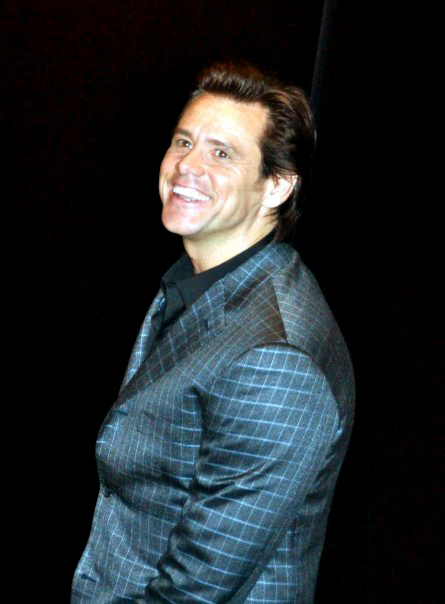 Jim Carrey at the Cannes film festival